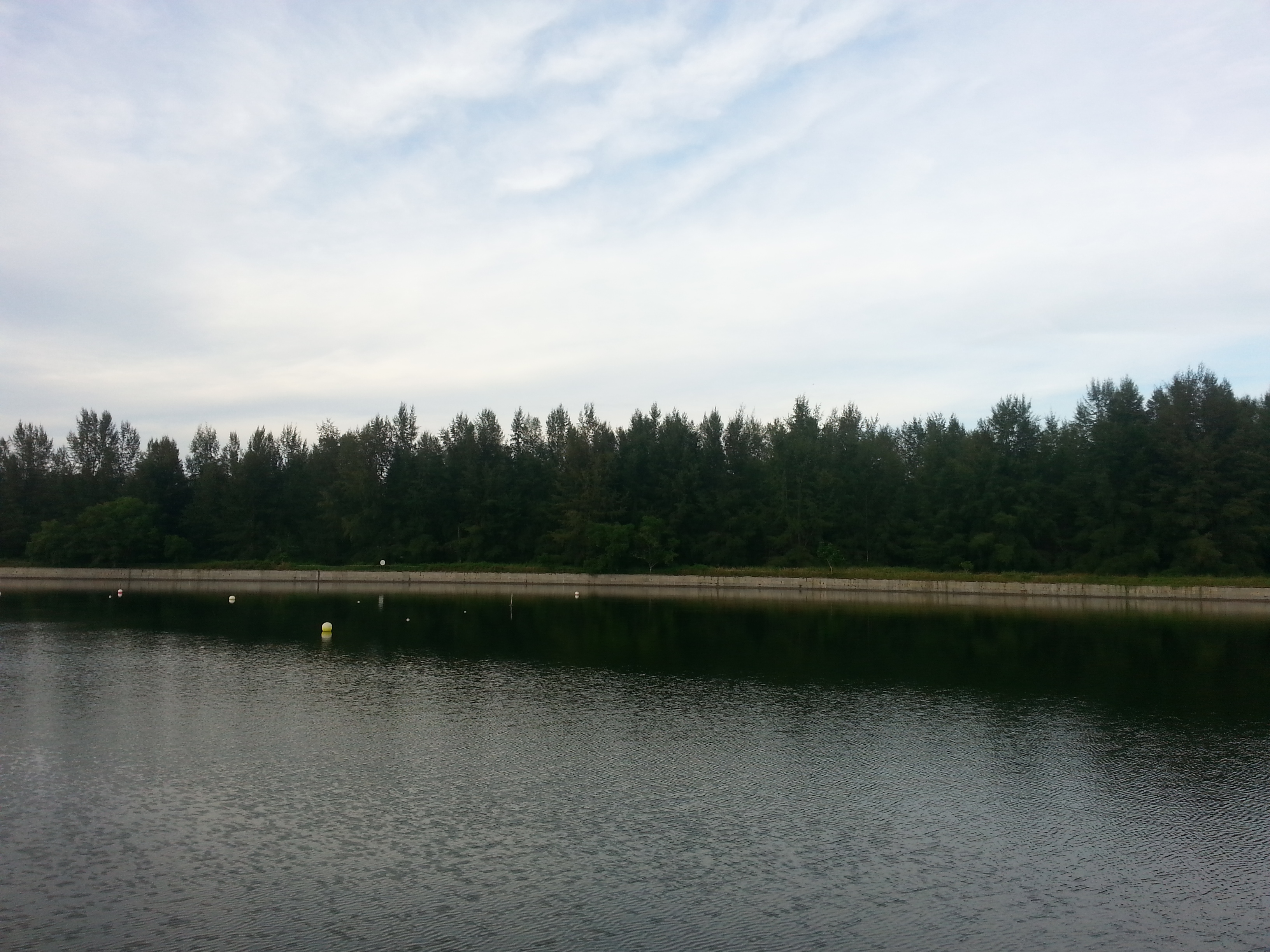 A view of Pulau Serangoon from Punngol Promenade Nature Walk.